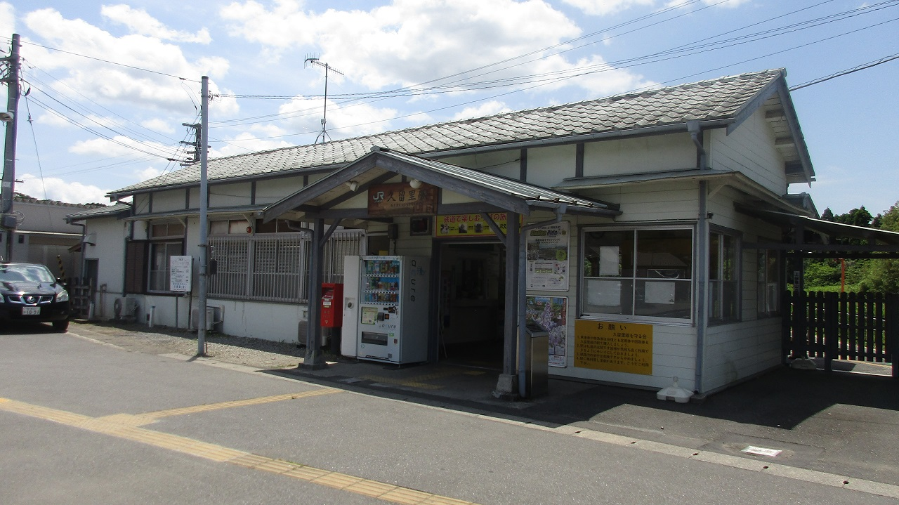 JR久留里線 久留里駅舎